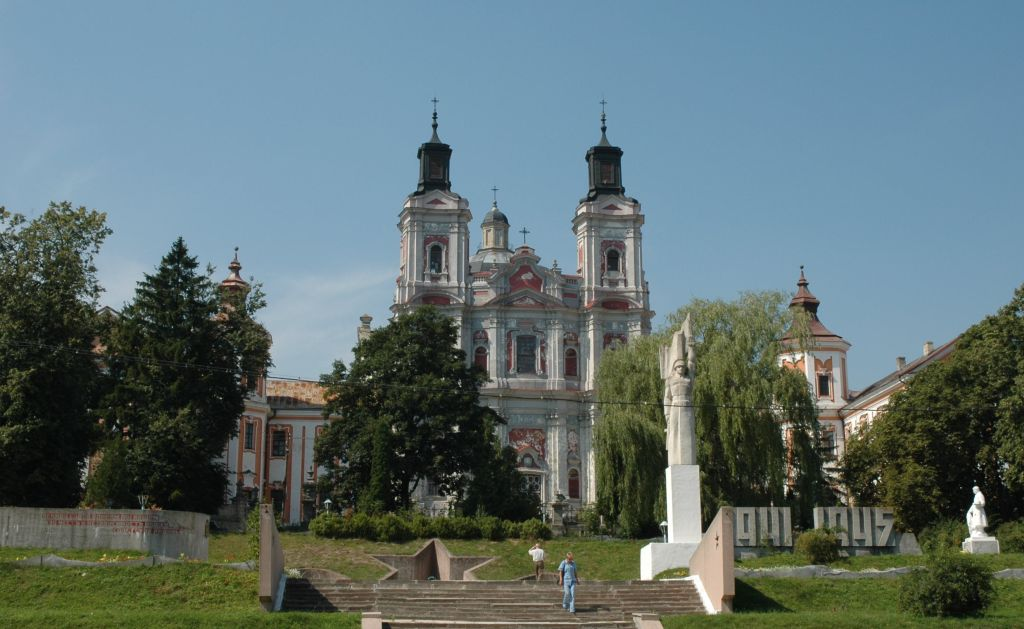 Ukraine, Kremenets - Lyceum Church of St. Ignatius Loyola and St. Stanislaus Kostka, presently used by a Ukrainian Orthodox Church